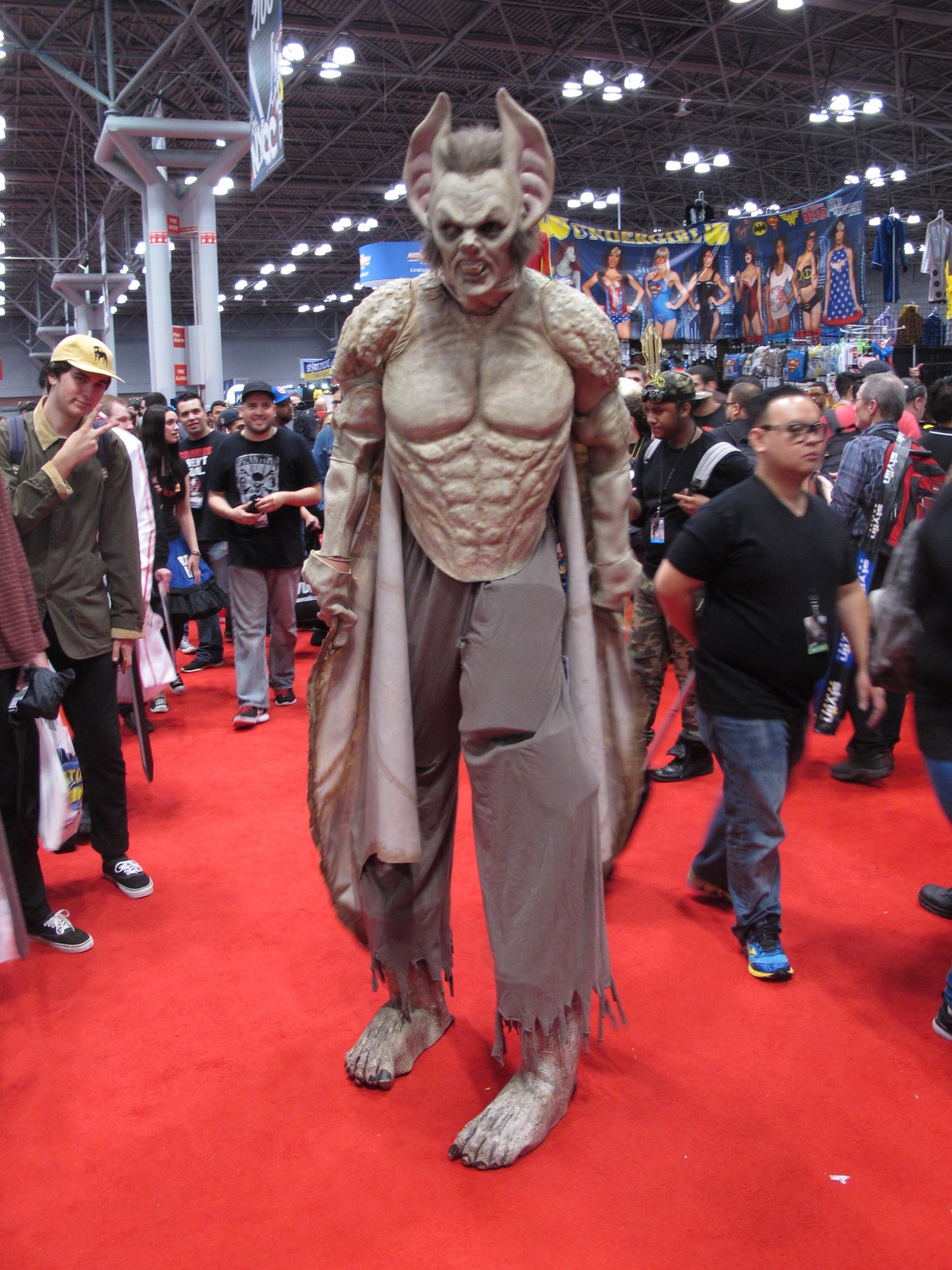 Can anyone help me ID this? Cosplay at the 2014 New York Comic Con.